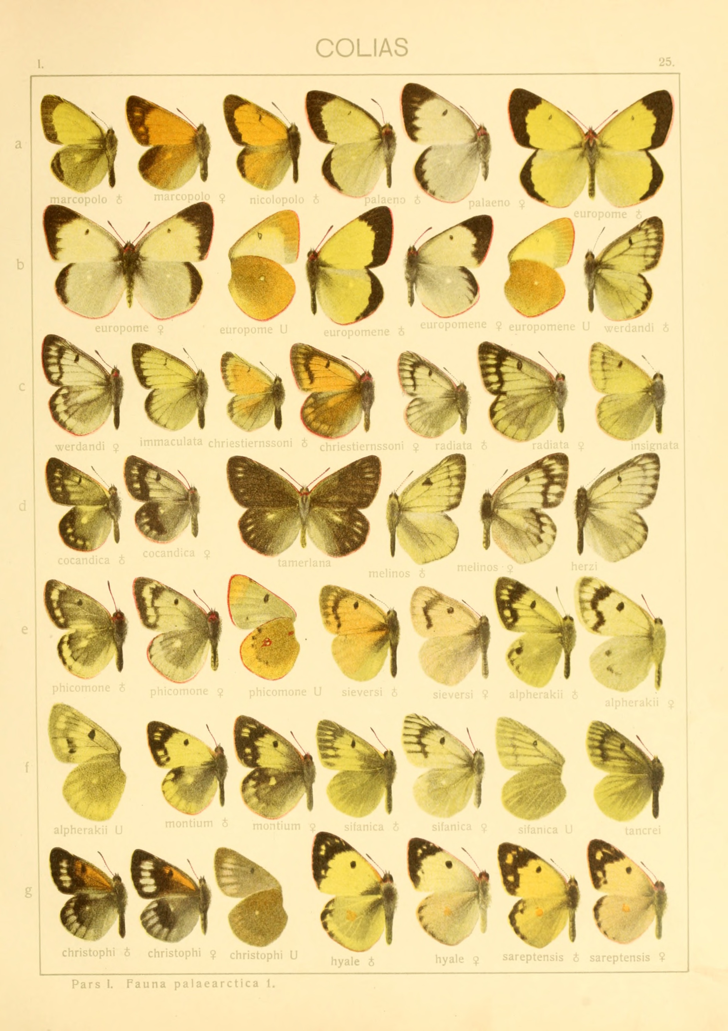 Plate from Seitz, A. Ed., 1900-1909 Die Großschmetterlinge der Erde, Verlag Alfred Kernen, Stuttgart Die Großschmetterlinge des palaearktischen Faunengebietes(The Macrolepidoptera of the world : a systematic account of all the known Macrolepidoptera) Band 1: Abt. 1, Die Großschmetterlinge des palaearktischen Faunengebietes, Die palaearktischen Tagfalter. read text (in German) See The Global Lepidoptera Names Index for valid names Colias marcopolo(Grum-Grshimailo, 1888) nicolopolo synonym for Colias marcopolo Grum-Grshimailo, 1888 Colias palaeno (Linnaeus, 1758) Colias palaeno europome (Esper, 1778) Colias palaeno europomene Ochsenheimer, 1808 Colias tyche werdandi Zetterstedt, 1839 immaculata Lampa, 1885 forma of Colias tyche werdandi Zetterstedt, 1839 christiernssoni Lampa, 1885 orange forma of Colias tyche werdandi Zetterstedt, 1839 ab. radiata Thurau, 1903 forma of Colias tyche werdandi Zetterstedt, 1839 ab.insignata Thurau, 1903 forma of Colias tyche werdandi Zetterstedt, 1839 Colias cocandica Erschoff, 1874 Colias tamerlana Staudinger, 1897 Colias melinos Eversmann, 1847 synonym for Colias tyche tyche (de Böber, 1812) herzi Staudinger, 1901 forma of Colias tyche tyche Colias phicomone (Esper, 1780) Colias sieversi Grumm-Grzhimaylo, 1887 Colias alpherakii Staudinger, 1882 Colias montium Oberthür, 1886 Colias sifanica Grum-Grshimailo, 1891 Colias sifanica sifanica f. tancrei Röber, [1907] Colias christophi Grum-Grshimailo, 1885 Colias hyale (Linnaeus, 1758) Colias sareptensis Staudinger, 1871